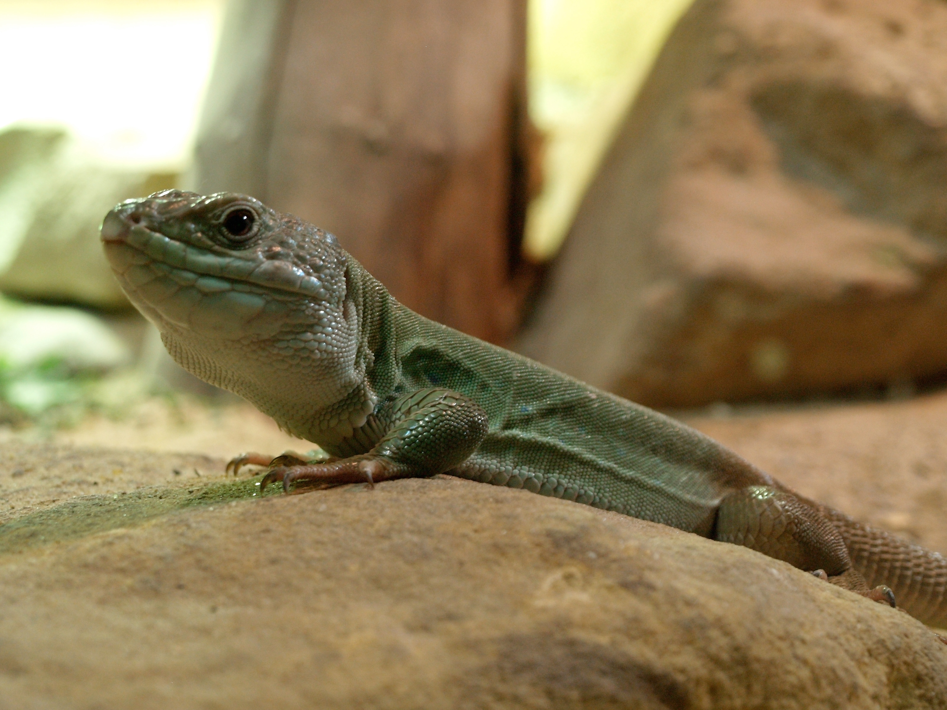 Timon tangitanus[1] (Timon pater tangitanus) (North african ocellated lizard) in Prague ZOO